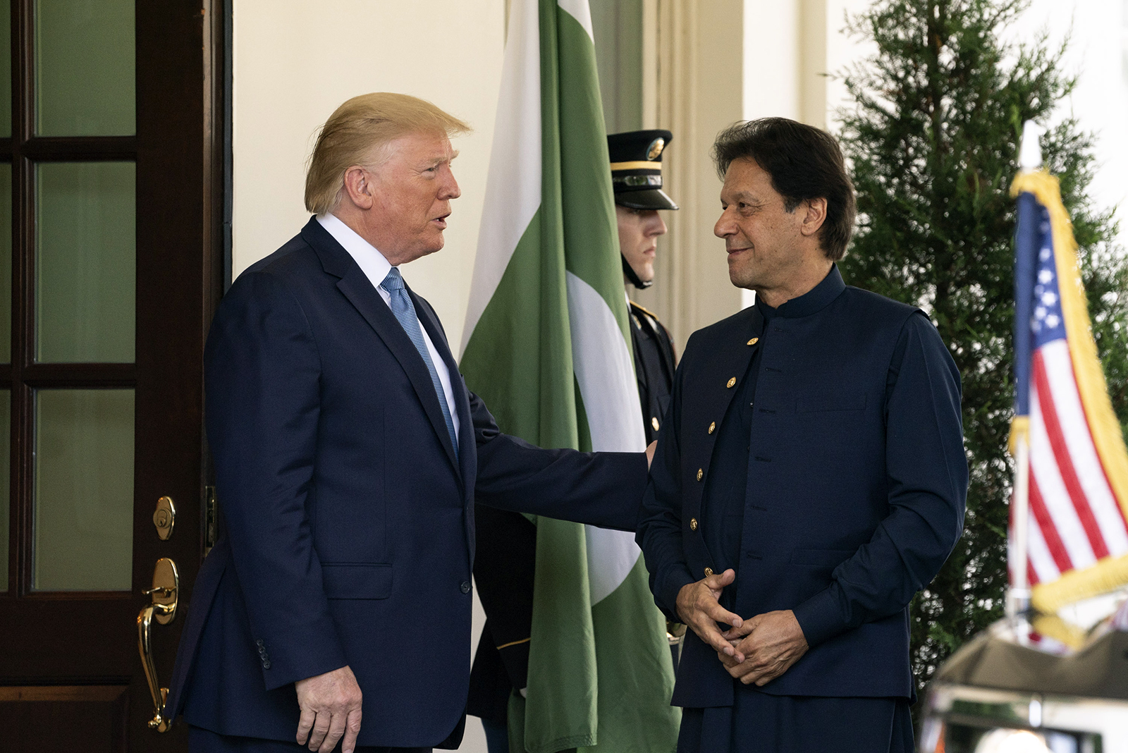 President Donald J. Trump welcomes Prime Minister Imran Khan of the Islamic Republic of Pakistan on Monday, July 22, 2019, to the West Wing Lobby entrance of the White House. (Official White House Photo by Joyce N. Boghosian)